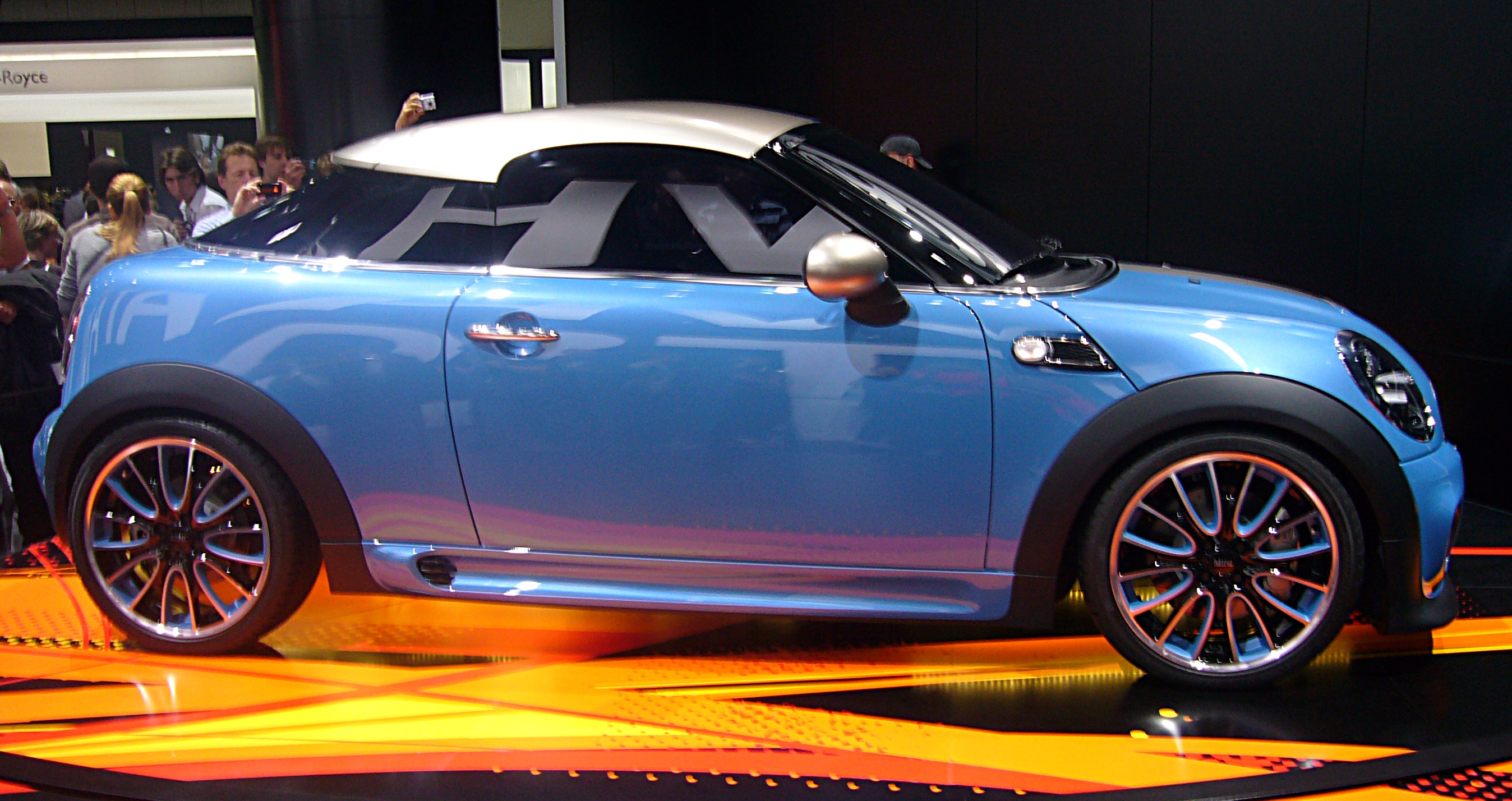 Mini Coupe Concept at IAA Frankfurt 2009